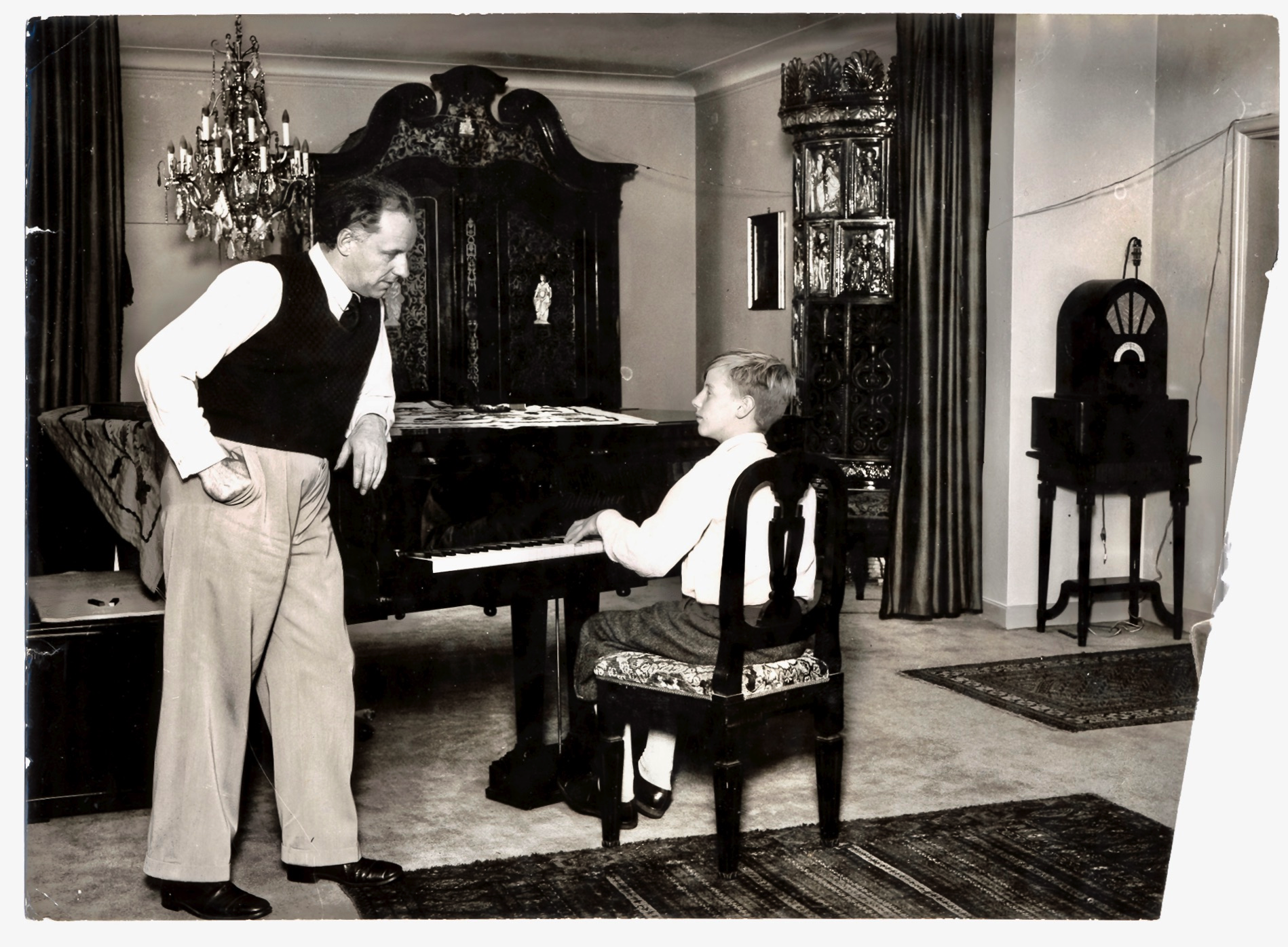 German film director Arnold Heinrich Fanck (1889–1974) with his first son Arnold Ernst Fanck (1919–1994) playing the Welte-Mignon grand piano inside the villa Am Sandwerder 39 in Berlin-Nikolassee, Germany. Arnold junior attended the private boarding-school Freie Schulgemeinde in Wickersdorf near Saalfeld in Thuringia Forest from 1930 to 1938, where he graduated (Abitur).